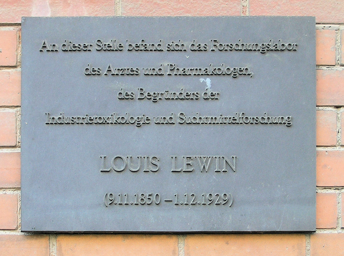 Memorial plaque, Louis Lewin, Ziegelstraße 5, Berlin-Mitte, Germany Koordinate:52°31′24″N 13°23′22″E / 52.52333°N 13.38944°E